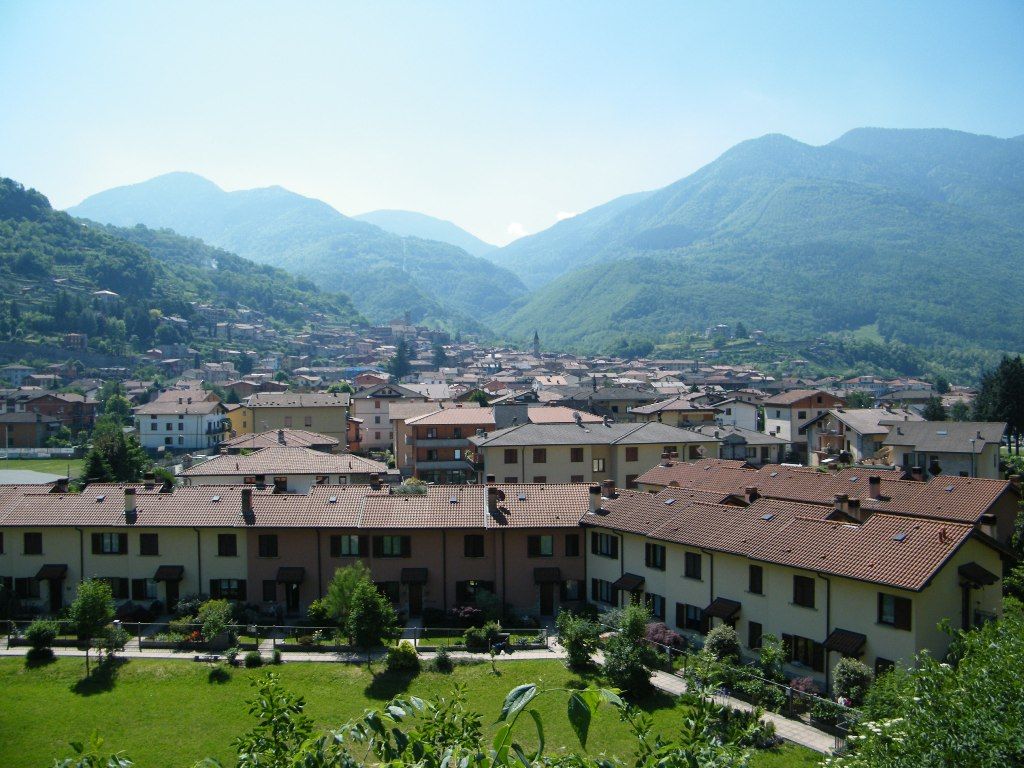 Panorama of Bienno, Val Camonica